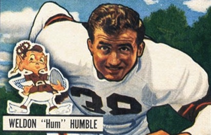 Weldon Humble, American football offensive lineman, on a 1951 Bowman football card